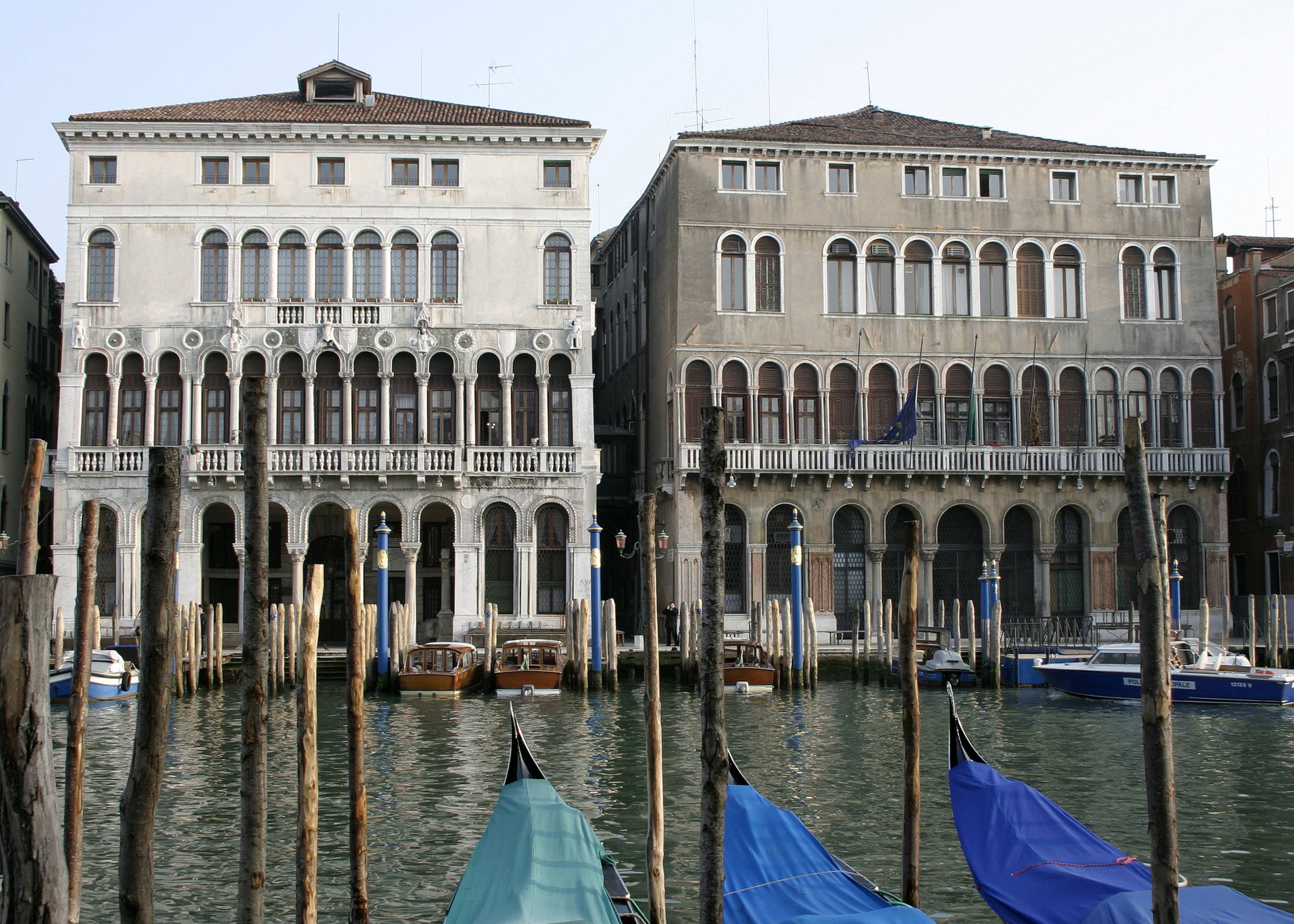 Venice – Palazzo Loredan (left) and Palazzo Farsetti (right) – Now both used as city hall palaces of Venice. cropped